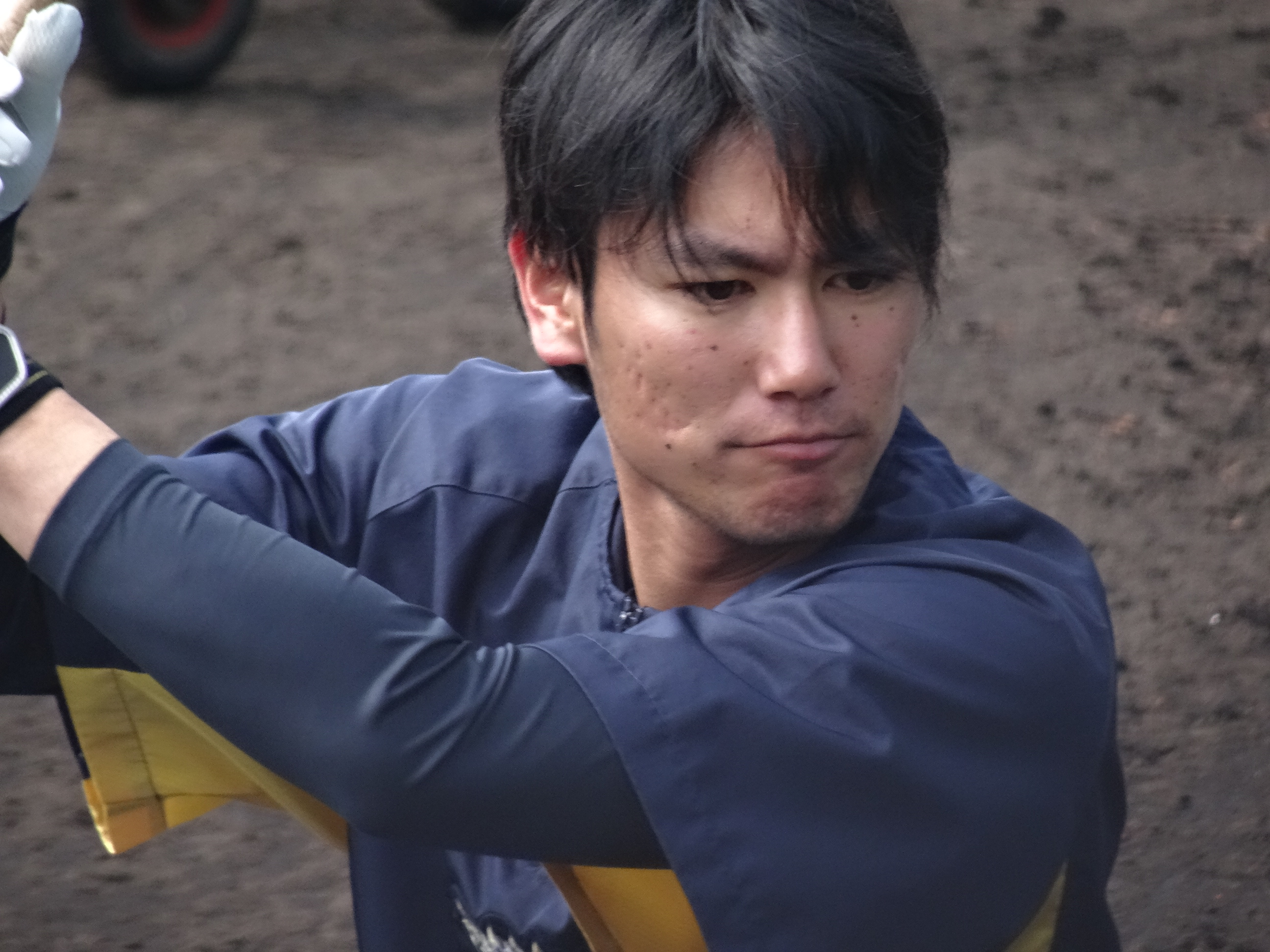 Koji Ohshiro, an infielder of the Orix Buffaloes, at the Hanshin Naruohama Baseball Ground.